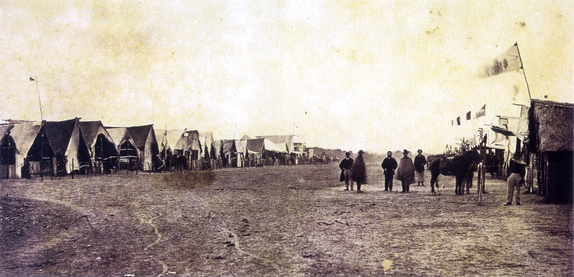 Marketplace in Lambaré, left side of Humaitá fortress (after it was captured by the allies). Notice the waving Brazilian flag to the right